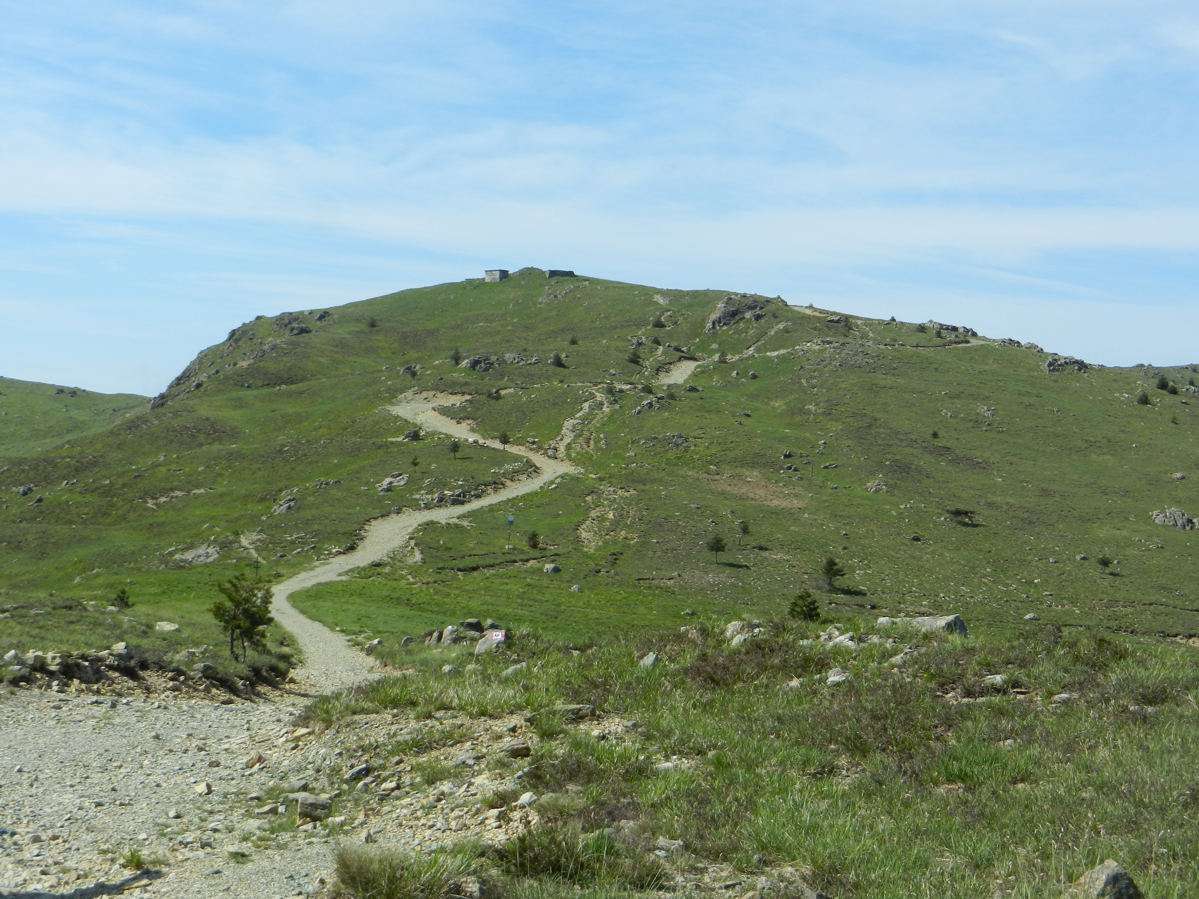 Mount Penello (province of Genoa)